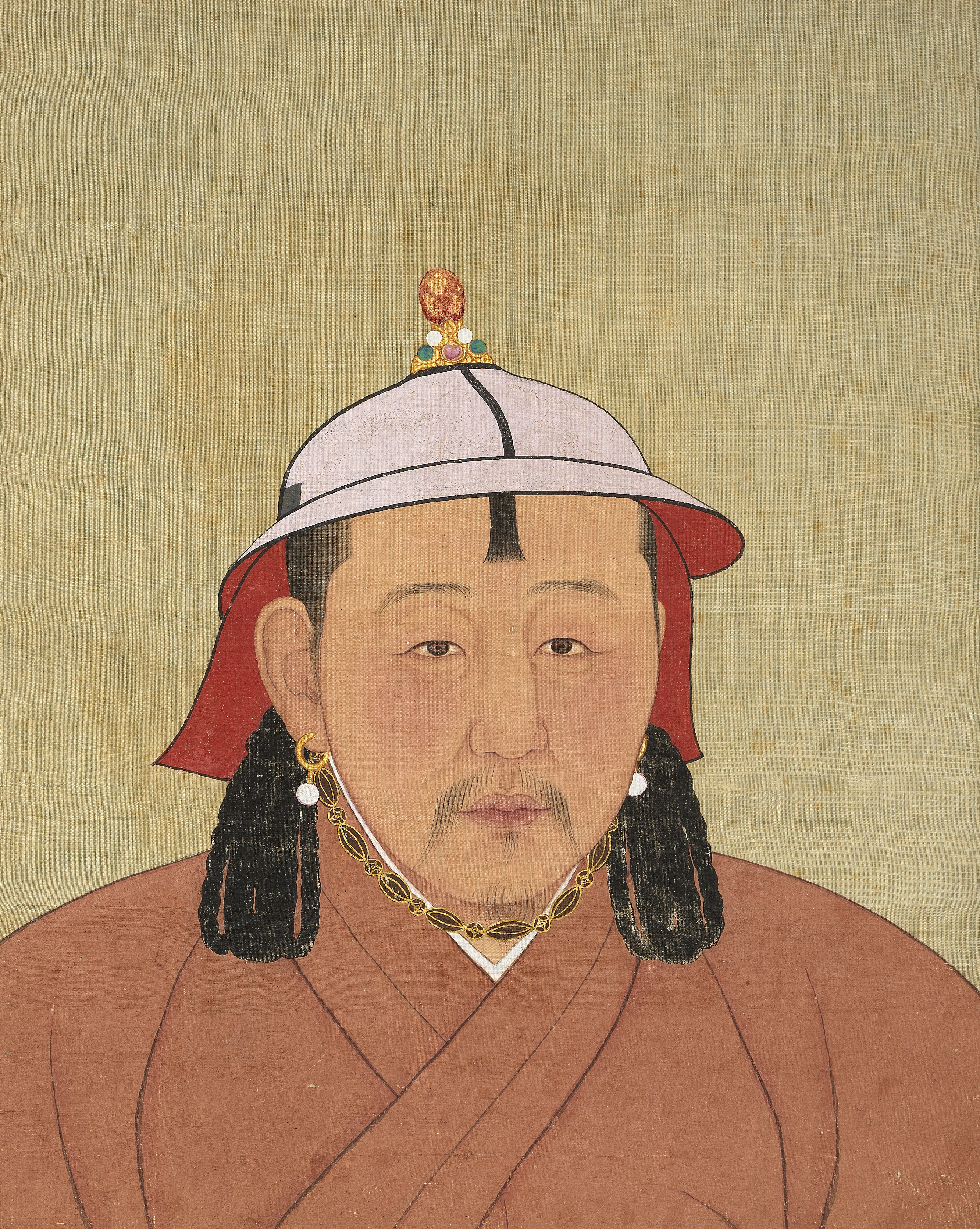 Wuzong, a.k.a. Qaishan, a.k.a. Külüg Khan. Portrait cropped out of a page from an album depicting several Yuan emperors (Yuandai di banshenxiang), now located in the National Palace Museum in Taipei (inv. nr. zhonghua 000324). Original size is 47 cm wide and 59.4 cm high. Paint and ink on silk. For the full page, see Image:YuanEmperorAlbumQaishanKulugFull.jpg.